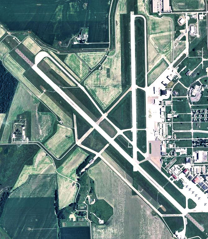 USGS digital orthophoto of Sioux Gateway Airport in Iowa